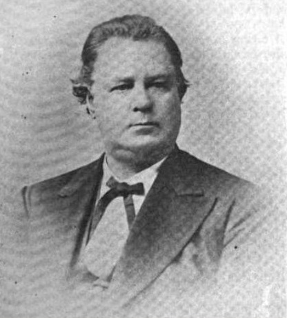 Jefferson P. Kidder